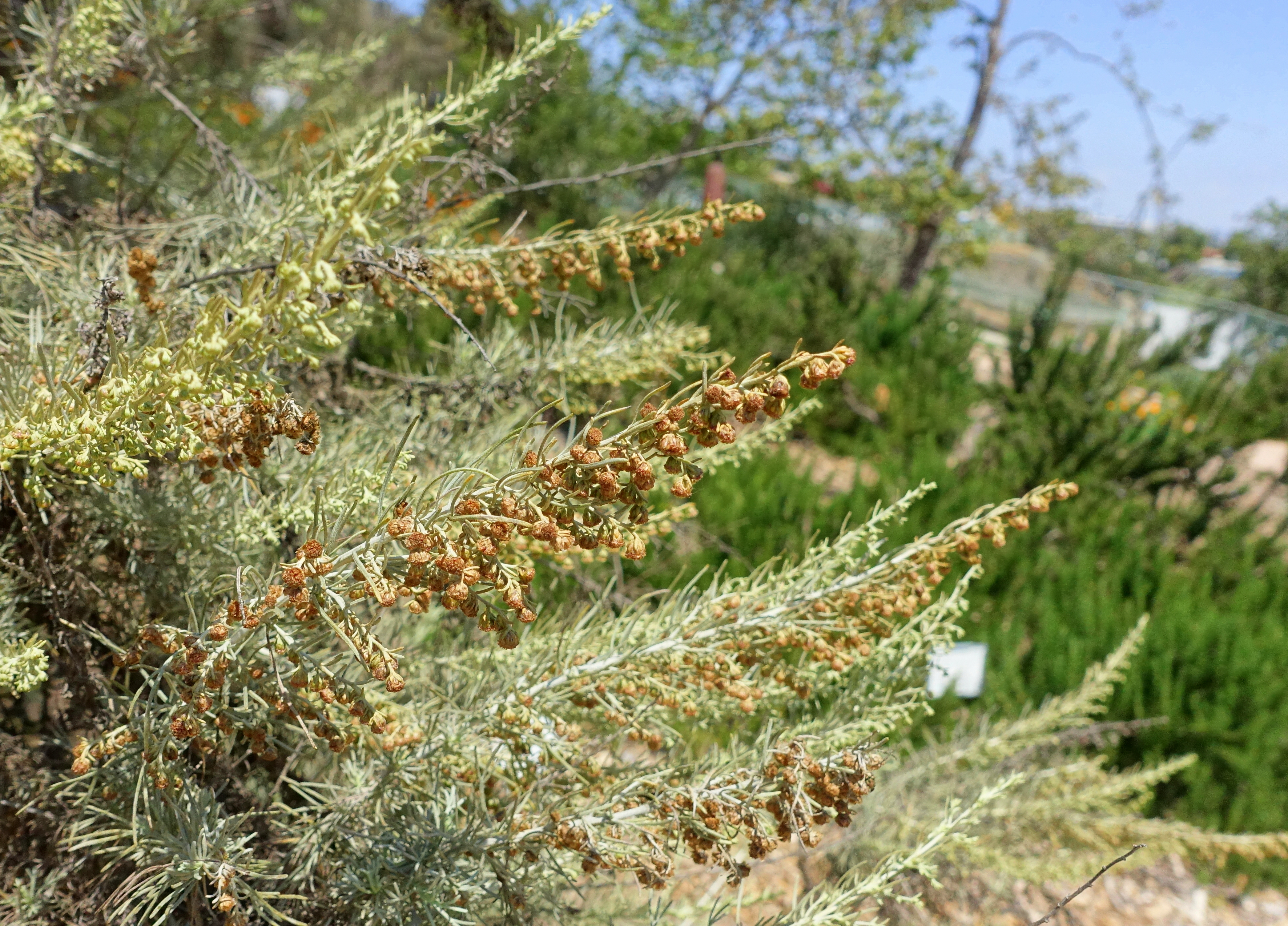 Botanical specimen in the Manhattan Beach Botanical Garden - Manhattan Beach, California, USA.